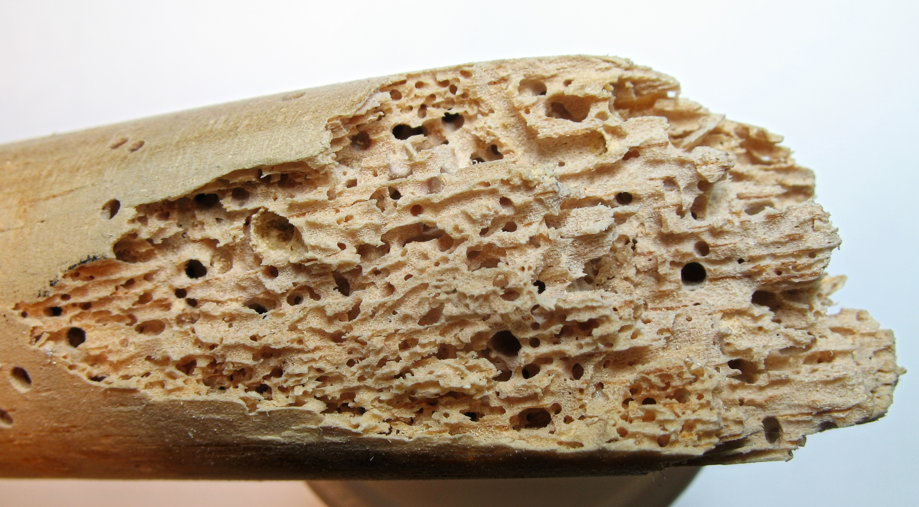 Fresh fragment of a broomstick eroded by woodboring beetles